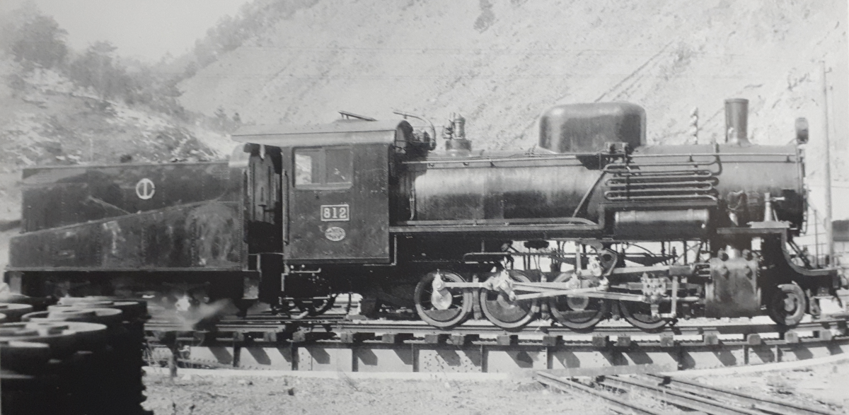 Class 810 steam locomotive of the Chosen Railway